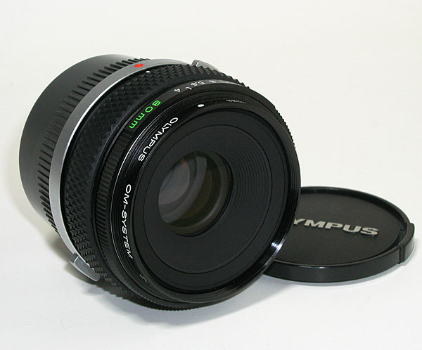 OM Zuiko 1:1 Macro 80mmF4